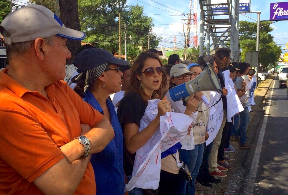 Protest on 26 December 2014 demanding freedom of the press in Nicaragua.